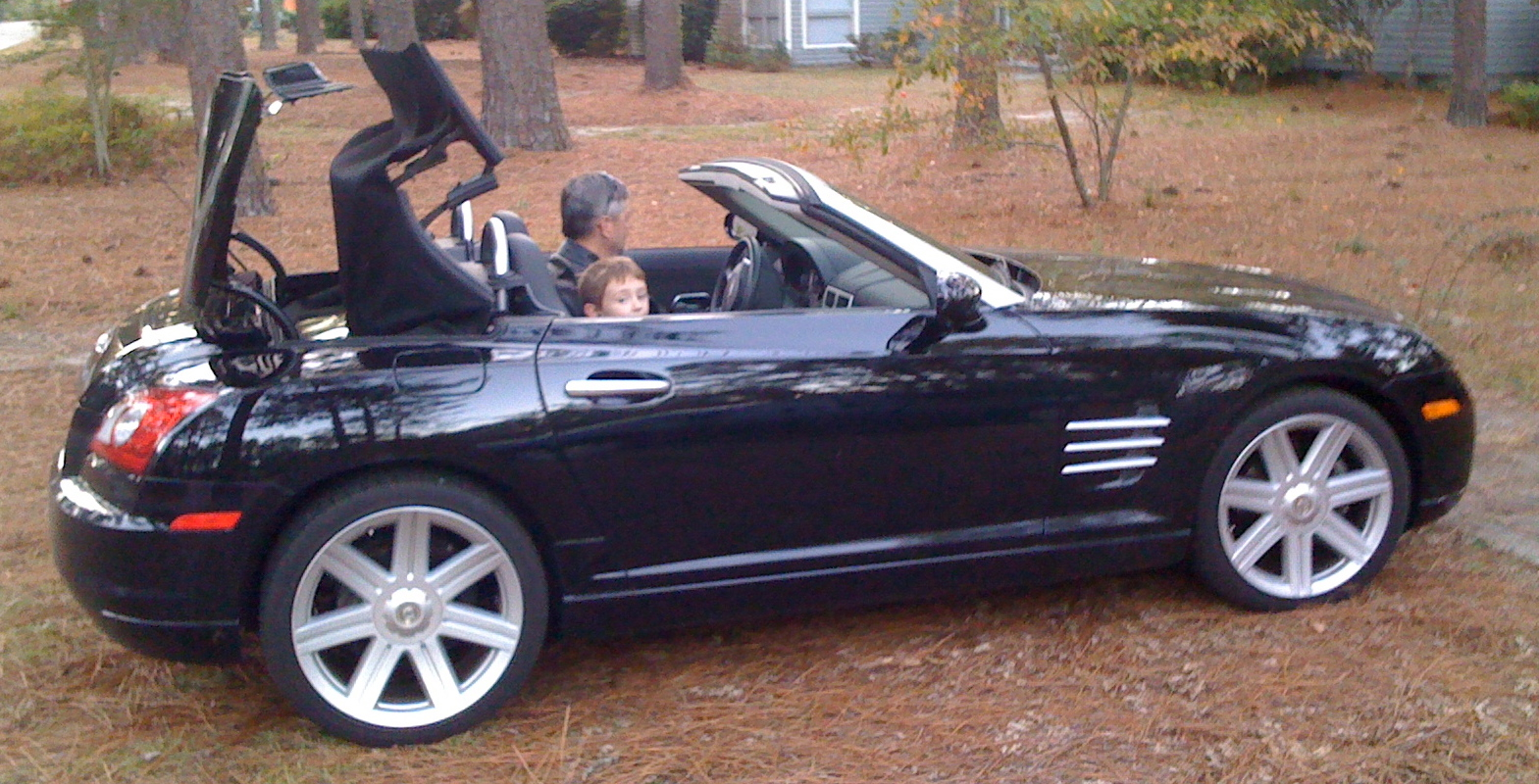 Chrysler Crossfire convertible, finished in black - Fully automatically operated convertible top in action.